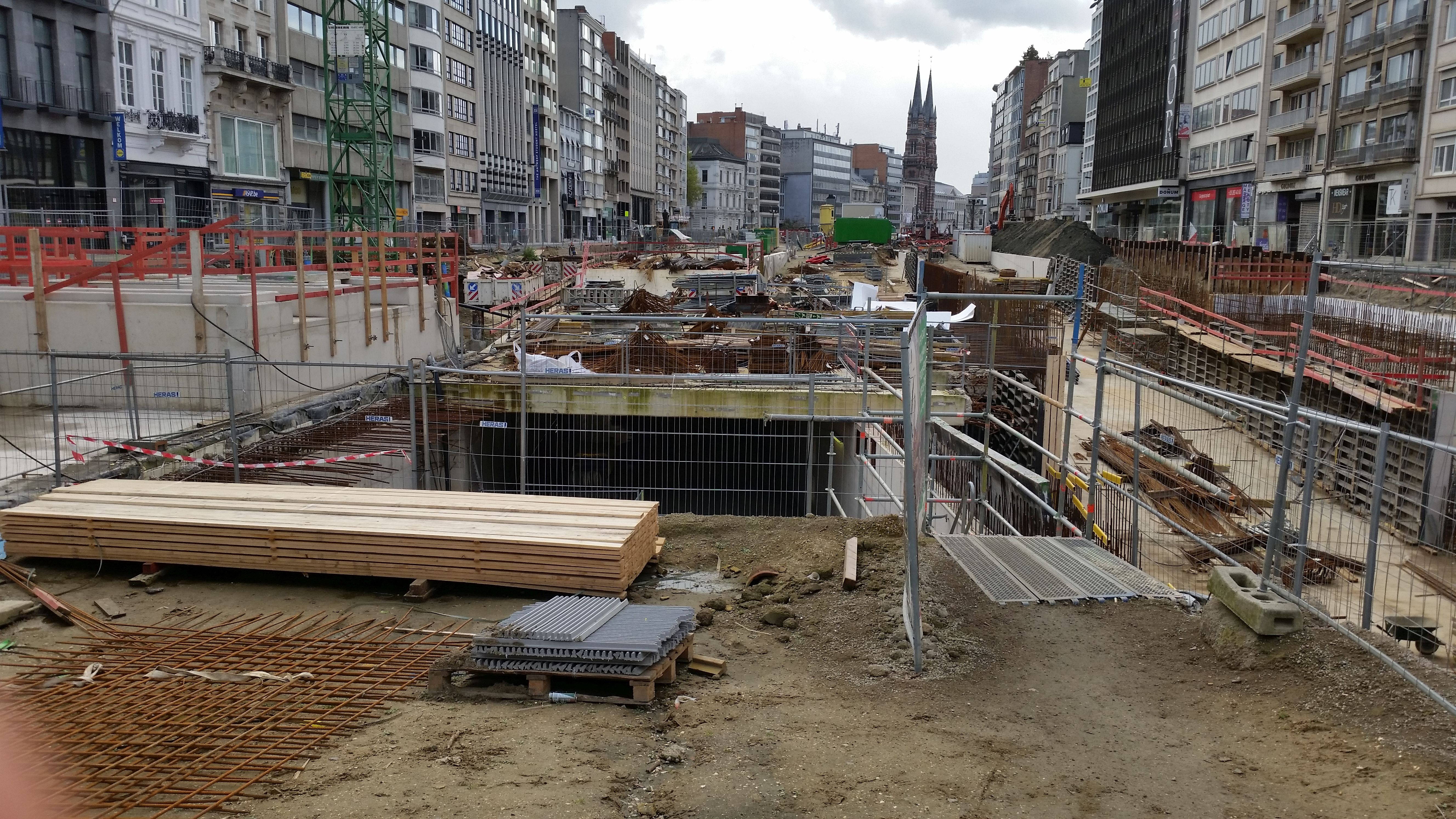 Redevelopment works of Opera Square in Antwerp, Belgium, within the frame of Noorderlijn project. Picture taken on October 29, 2017.